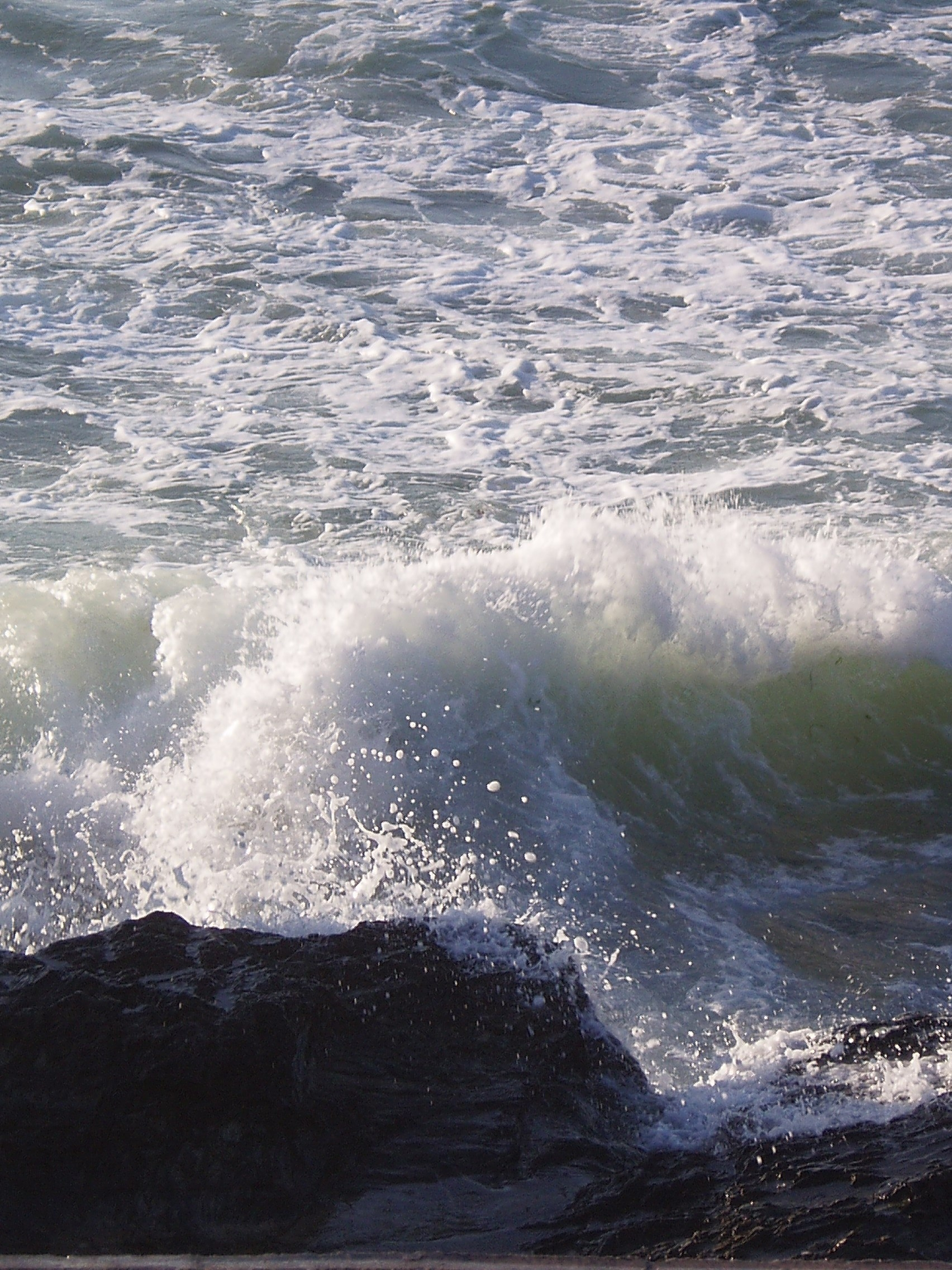 Author: Earth Network Editor Use: Image in public domain (requested to not be used for harmful purposes) Source: Digital camera, Taken in Cornwall. Originally P5290010.JPG